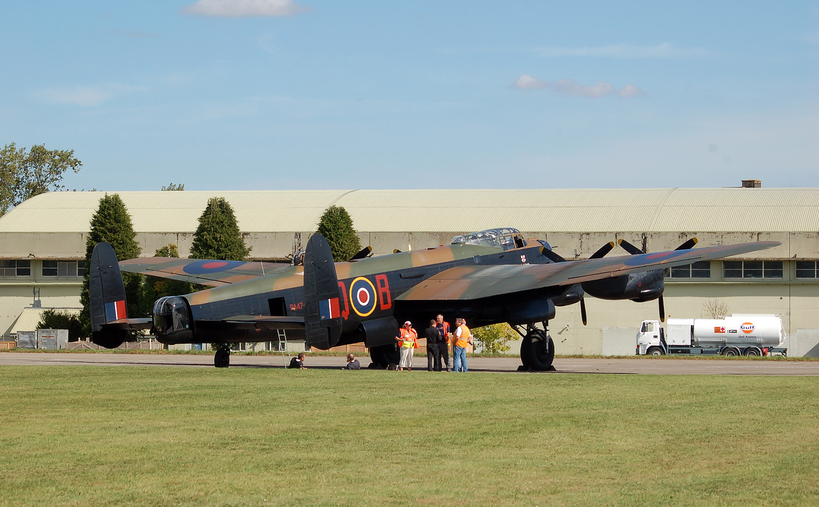 Battle of Britain Memorial Flight Lancaster B1 bomber PA474 waiting to display at Kemble Battle of Britain Weekend 2009, Cotswold Airport, Gloucestershire, England. The BBMF brochure for 2009 says “one of 7,377 Lancasters built. In the markings of No 550 squadron on one side (BQ-B) and No 100 squadron on the other (HW-R). Built in Chester, England, in mid-1945, too late to take part in World War 2.”